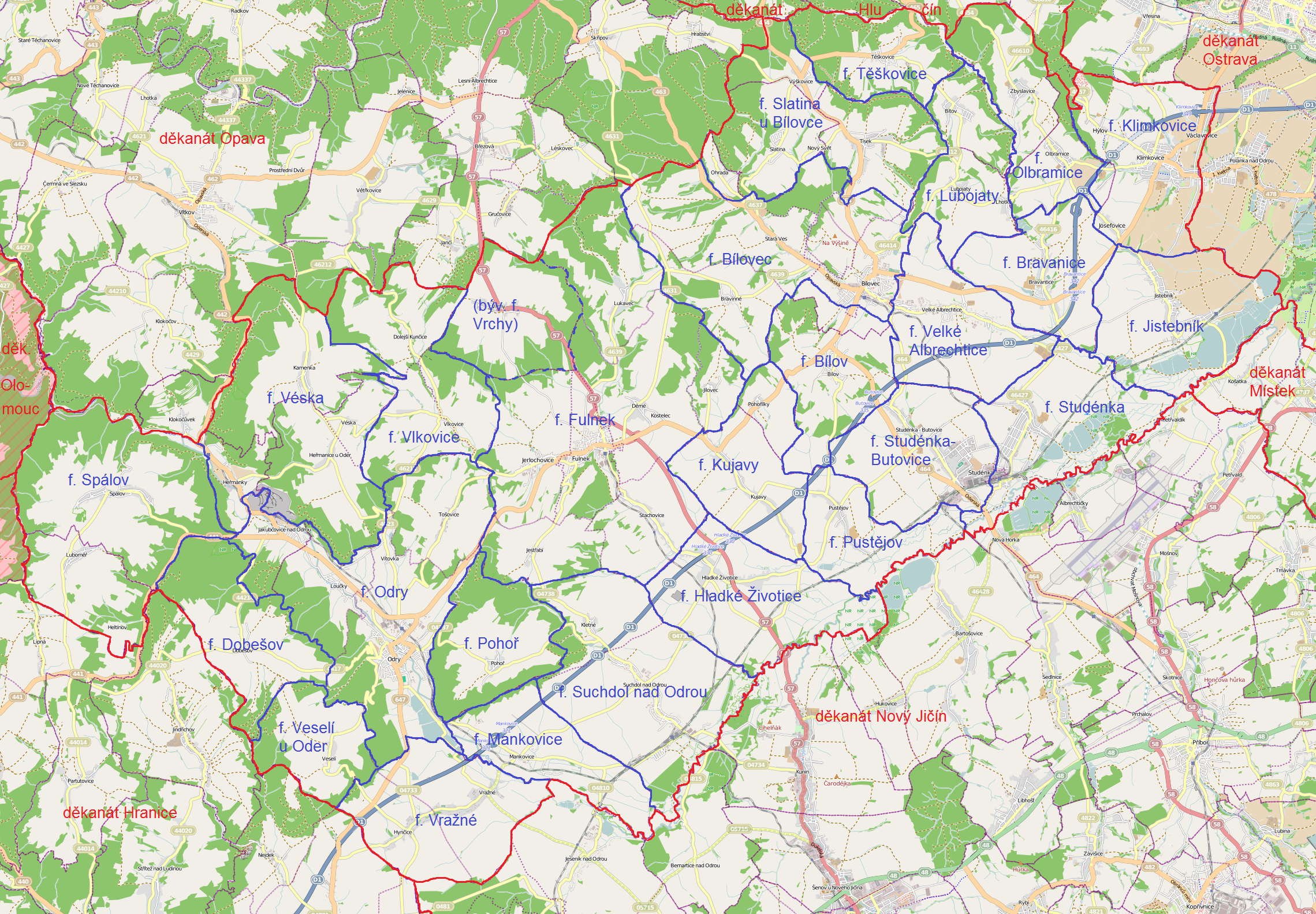 Bílovec Deanery with parish boundaries (2013). This map of Bílovec, Ostravský kraj, Czech Republic was created from OpenStreetMap project data, collected by the community. This map may be incomplete, and may contain errors. Don't rely solely on it for navigation.